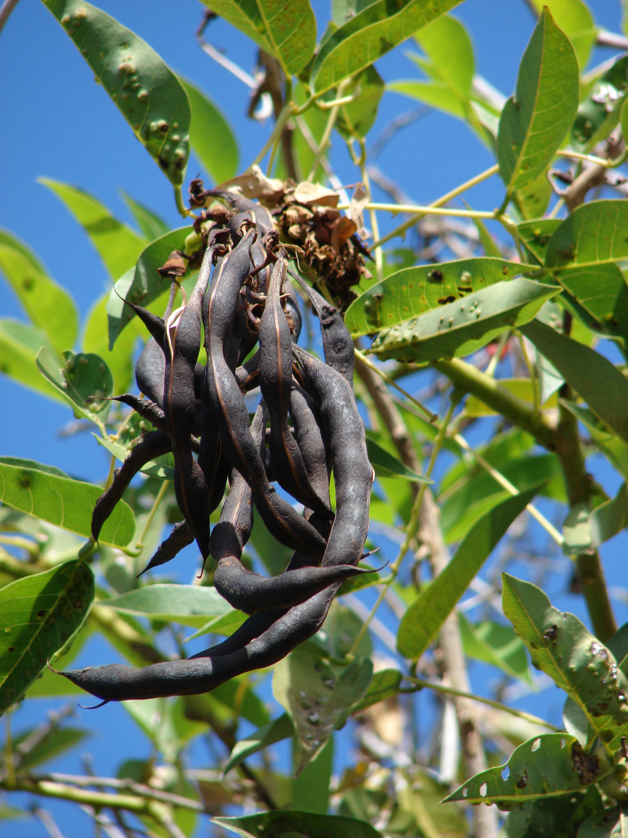 Erythrina crista-galli (leaves and seedpods). Location: Maui, Kaanapali